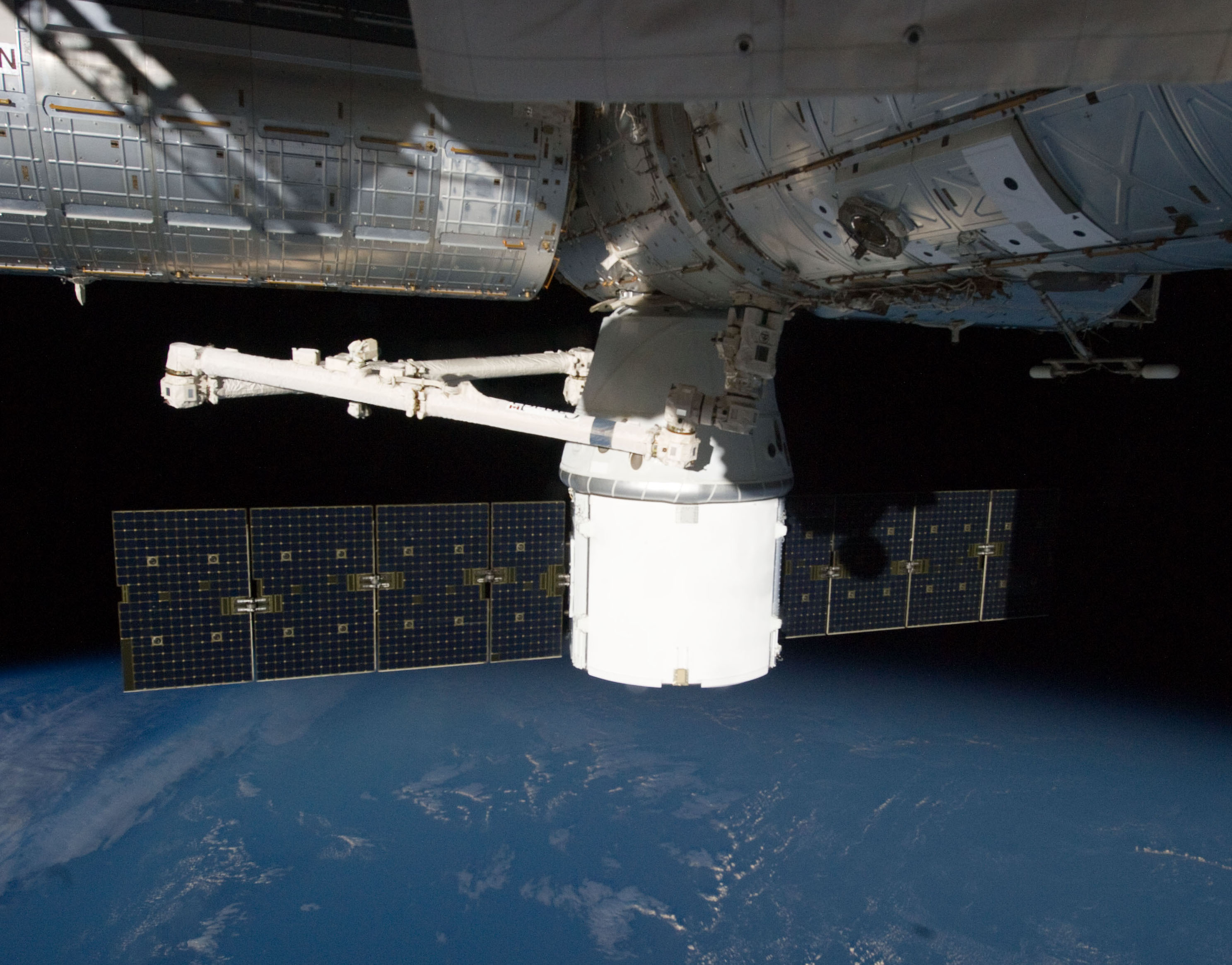 ISS033-E-012422 (14 Oct. 2012) --- Attached to the Earth-facing side of the Harmony node, the SpaceX Dragon commercial cargo craft is featured in this image photographed by an Expedition 33 crew member on the International Space Station. Dragon was berthed to Harmony on Oct. 10 and is scheduled to spend 18 days attached to the station.